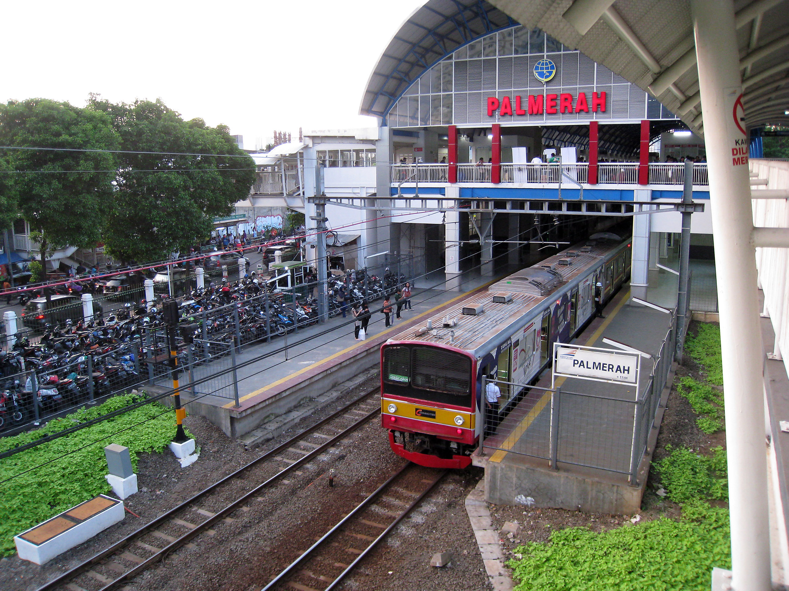 Commuterline electric train at Palmerah Station, Gelora, Central Jakarta, Indonesia.